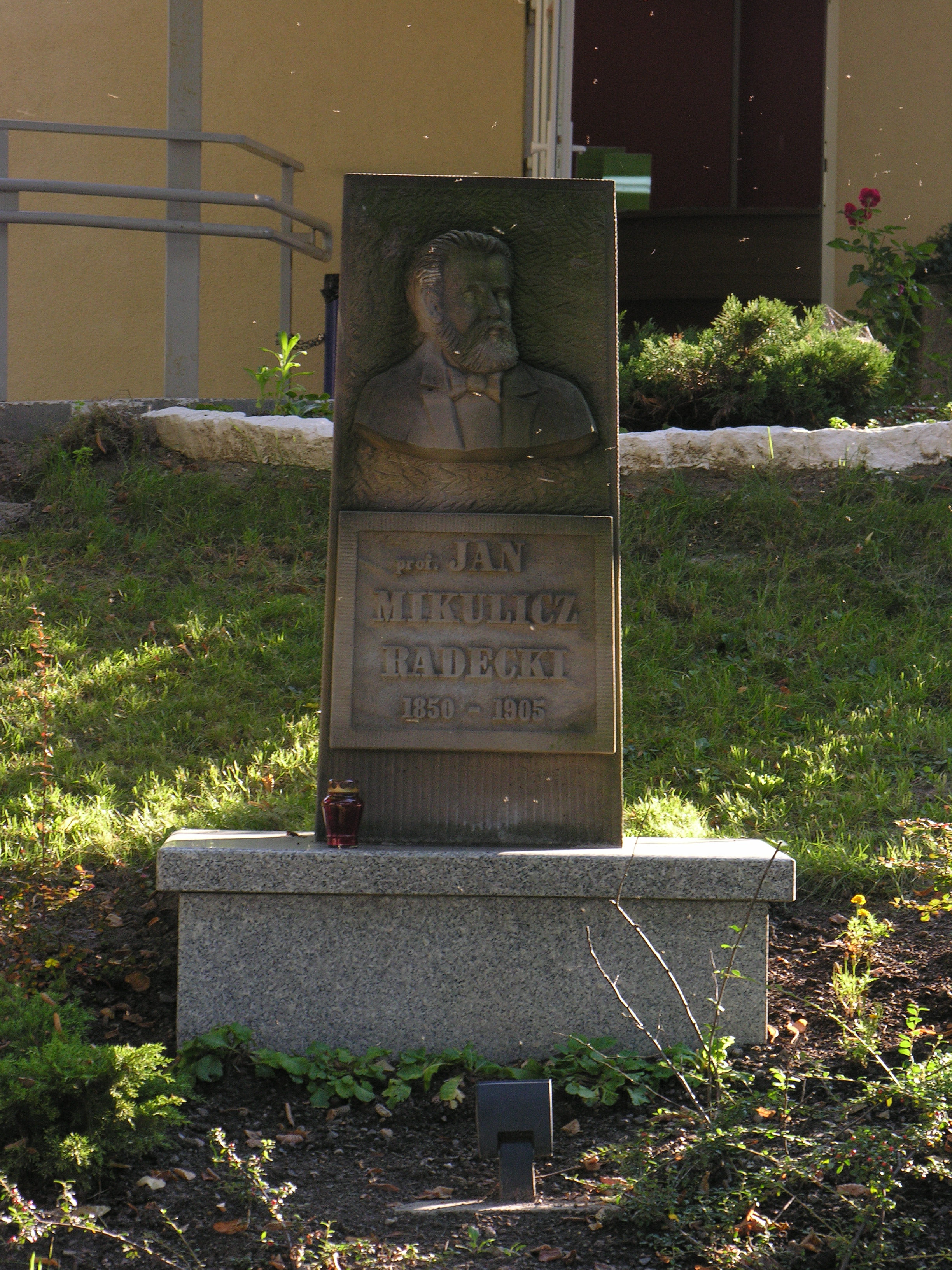 Pomnik Jana Mikulicza-Radeckiego w Świebodzicach, ul. Skłodowskiej-Curie 3-7